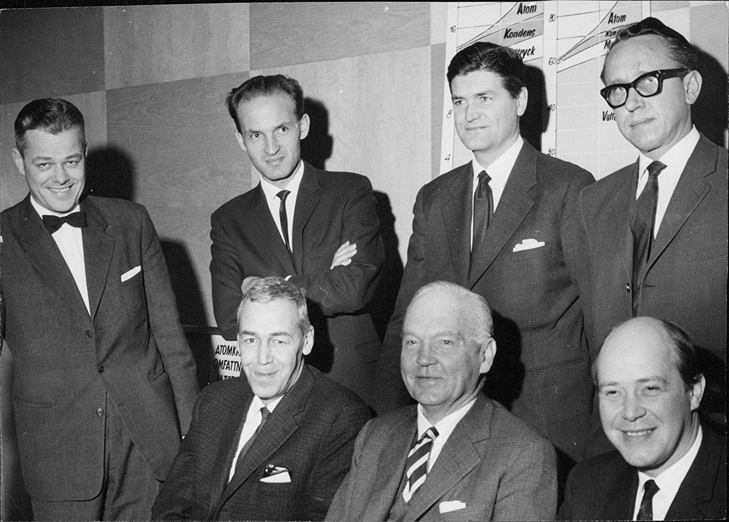 The Swedish Nuclear Power Study Committee. Standing from left to right: Bengt Nordström (Vattenfall), Nils Holmin (Vattenfall), Jan-Erik Ryman (corporate representative), Mårten Mårtensson (AB Atomenergi). Seated from left to right: Jonas Norrby (Vattenfall), Tore Hedin (chair, and corporate representative), Bo Aler (AB Atomenergi)